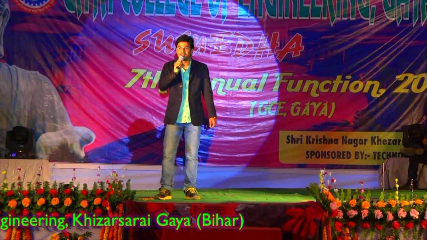 SUMEDHA" 7 th Annual Fuction 2015 Celebrated in Gaya Colege Of Engineering,Gaya